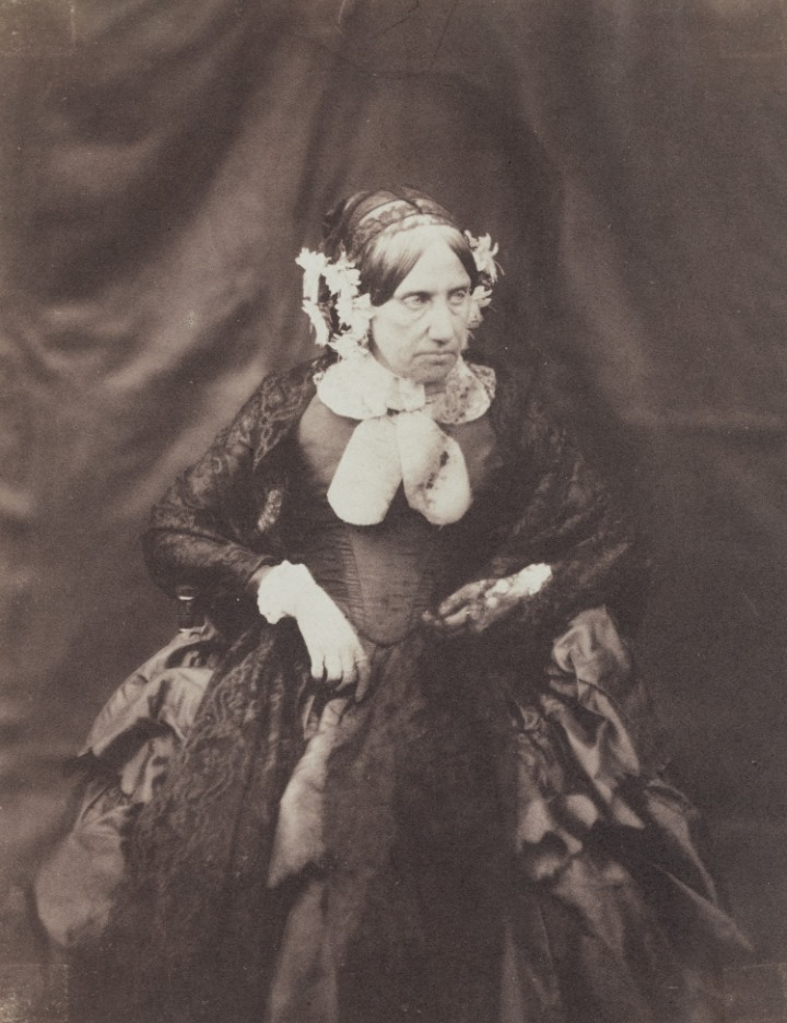 Archduchess Clementina of Austria, Princess of Salerno in her final years